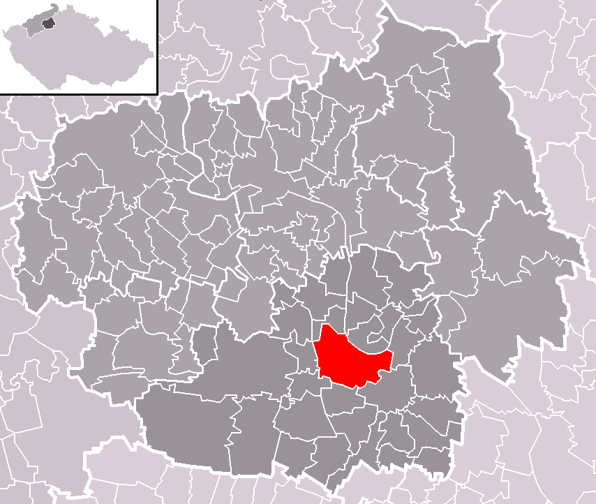 Location of Roudnice nad Labem town within Litoměřice District and administrative area of Roudnice nad Labem as a Municipality with Extended Competence.